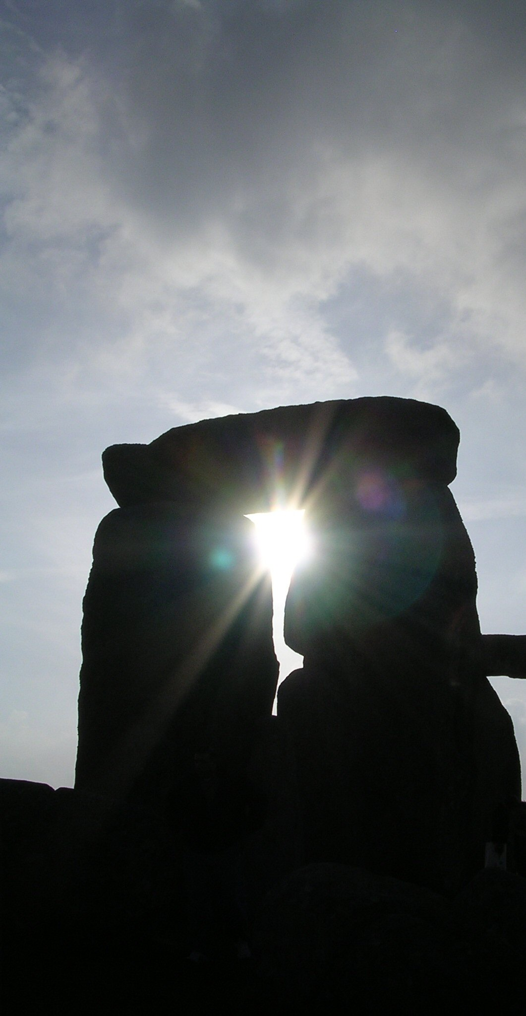 View of the setting evening sun through one of the Stonehenge trilithons. Photo taken inside the stone circle at 6:46 PM on April 23, 2005 by Kristian H Resset, Norway.